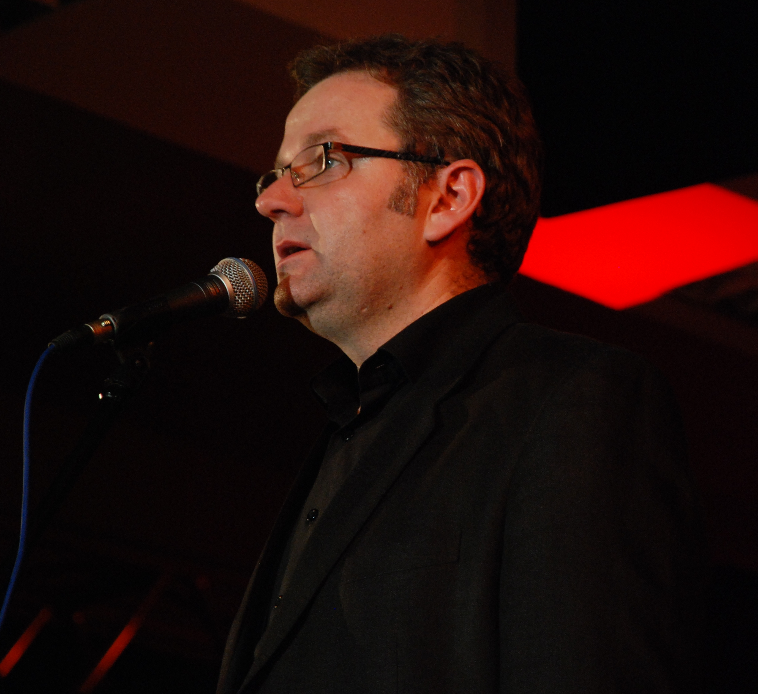 Artur Andrus, a Polish journalist and cabaret artist during his performance on the third day of the 2007 Festival of Cabaret in Zielona Góra.